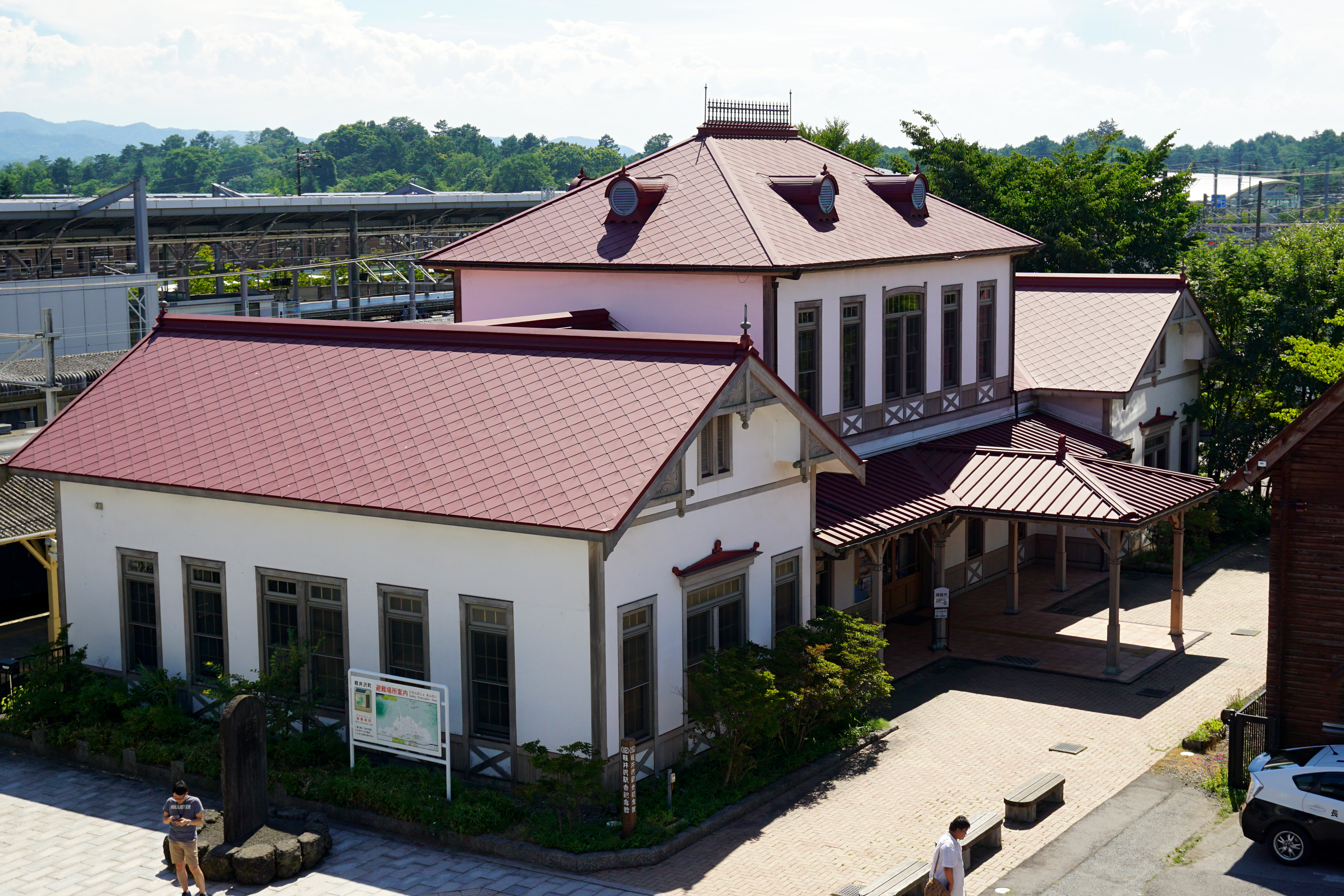 Old_Karuizawa_Station in Karuizawa, Nagano prefecture, Japan.